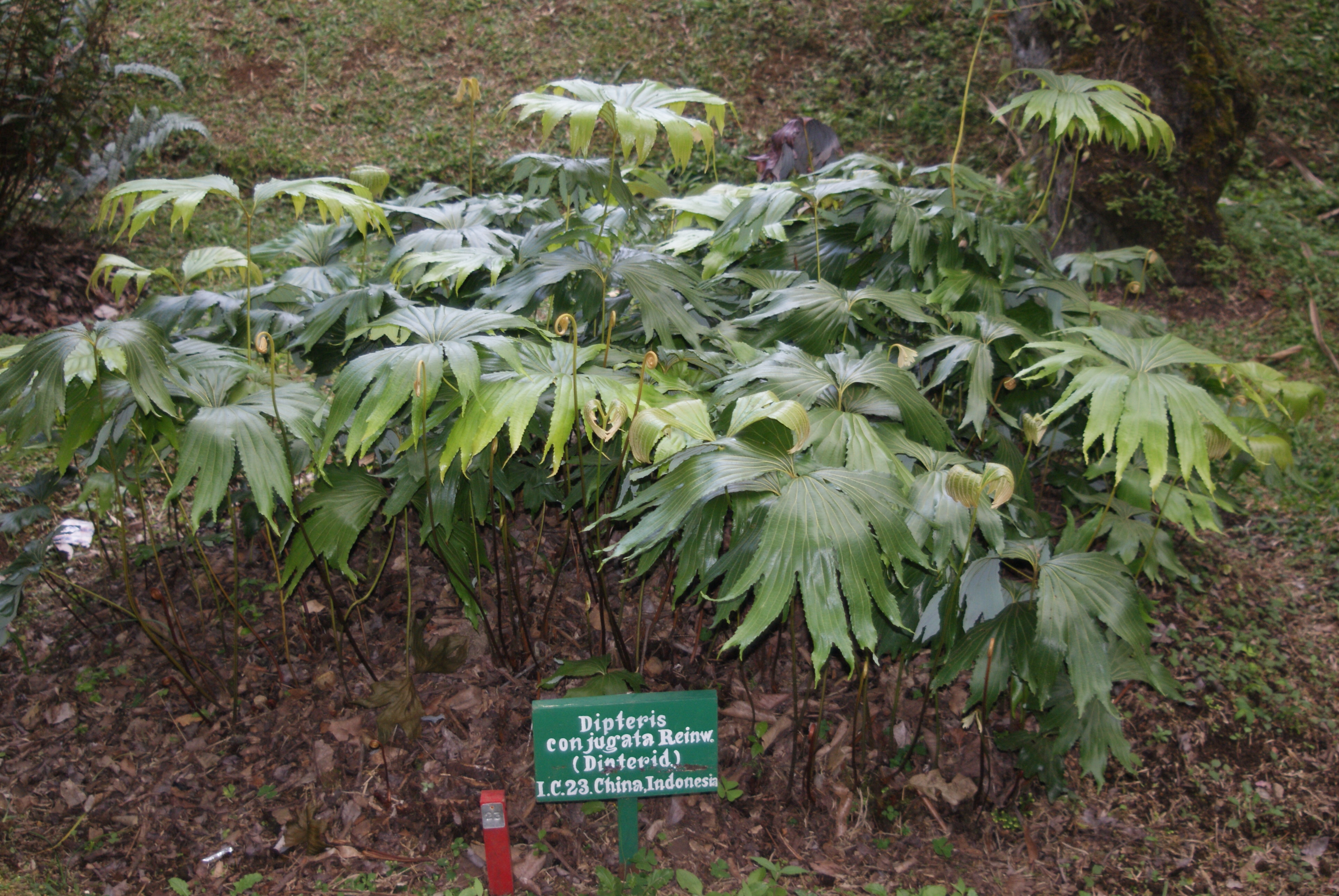 Dipteris conjugata Reinw.